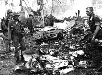 This photograph shows South Vietnamese Rangers and an American adviser at the crash site of a U.S. helicopter in Dong Xoai.